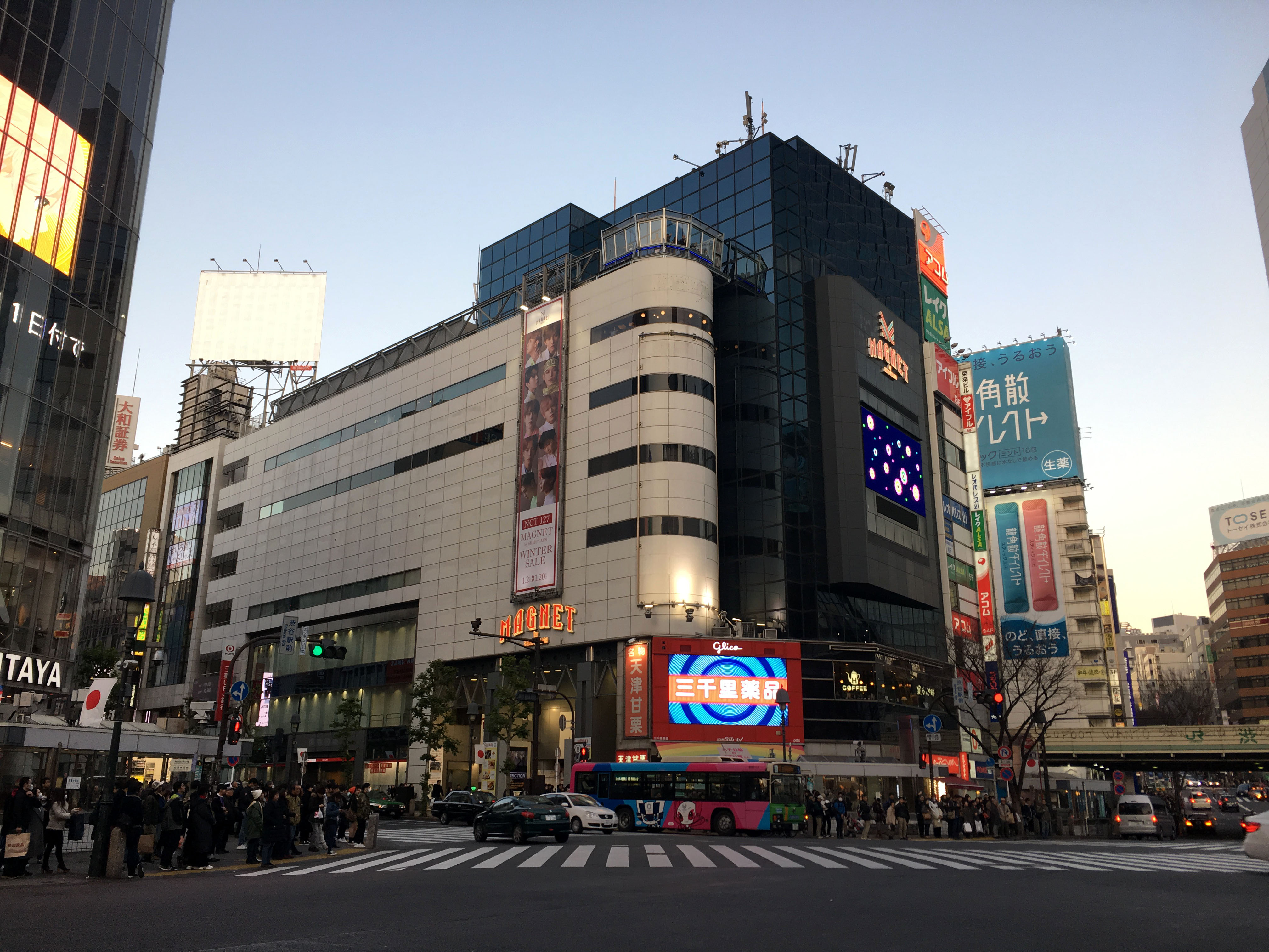 North east of Shibuya crossing (Tokyo, Japan)